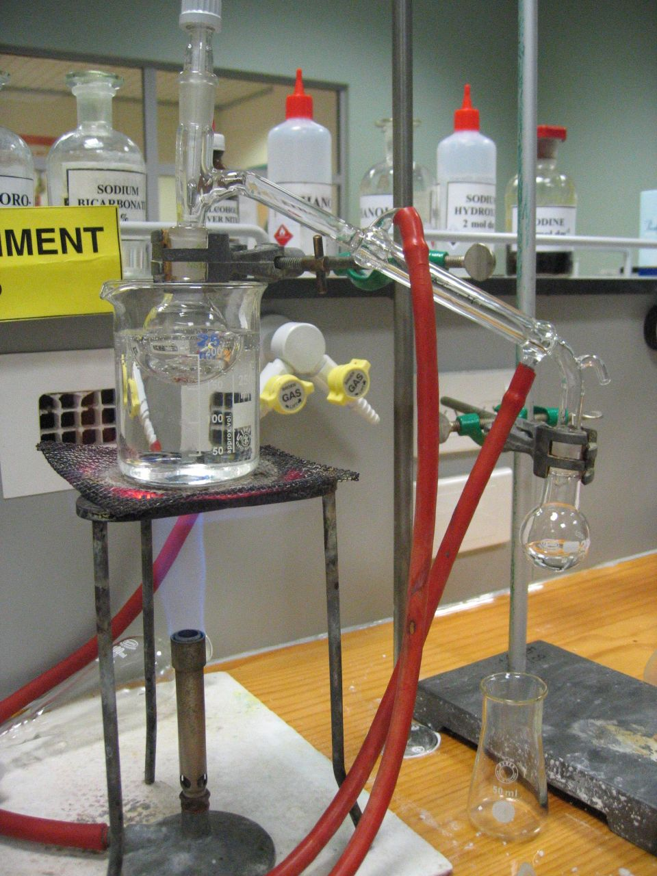 Nothing like a bit of distillation of 2-chloro-2-methylpropane to get the day off to a good start.